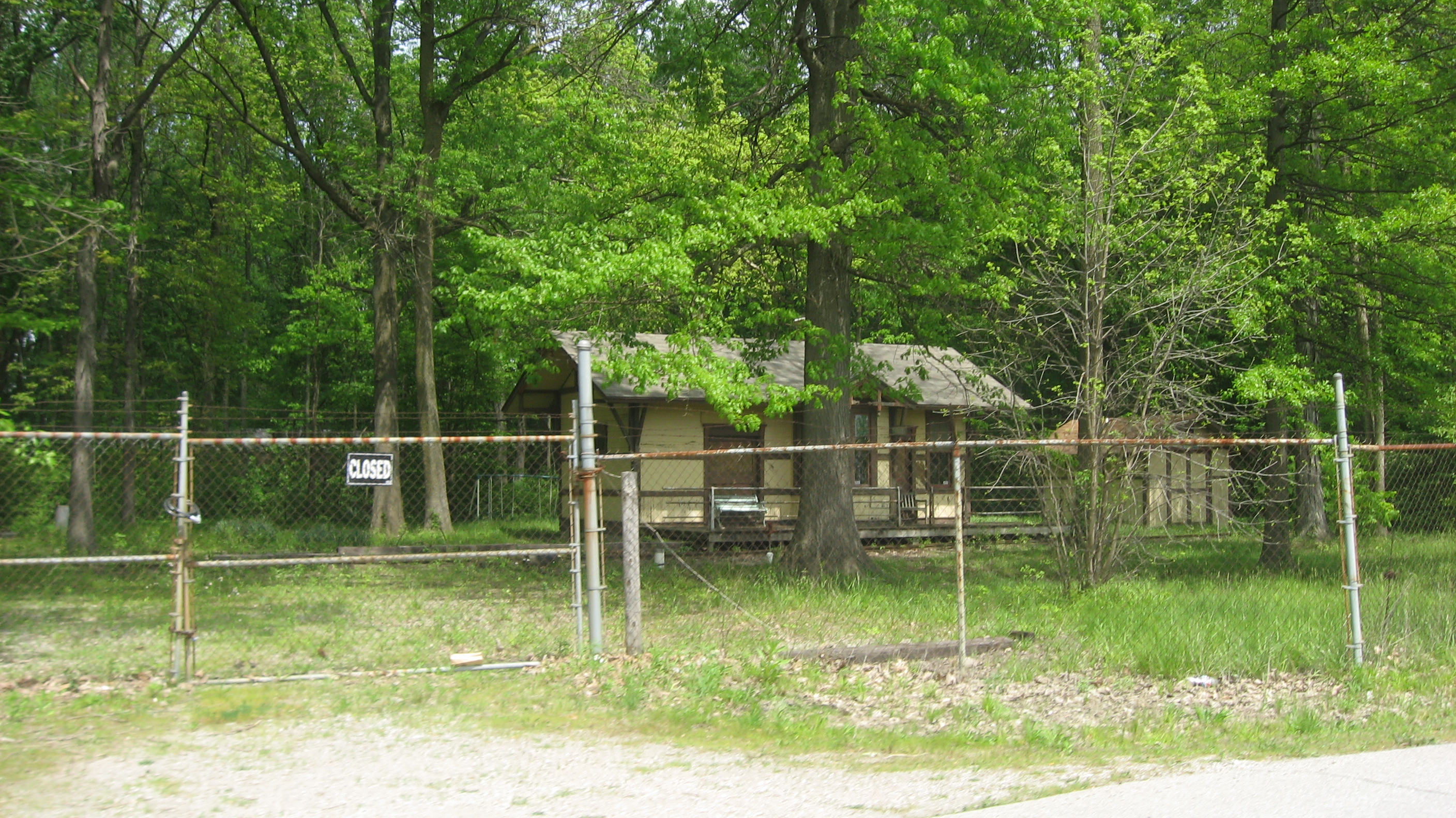 Front of the Craigville Depot, located just northeast of the junction of Ryan and Edgerton Roads east of New Haven in Jefferson Township, Allen County, Indiana, United States. Built in 1879, it is listed on the National Register of Historic Places.